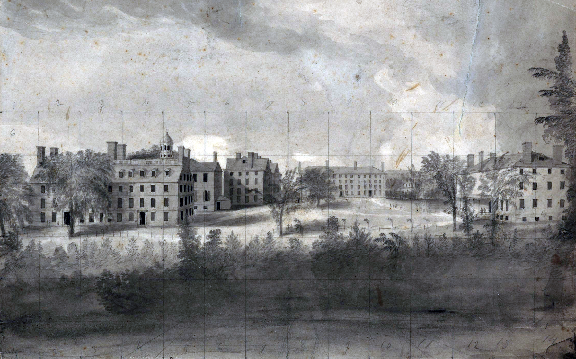 Pencil and wash drawing of Harvard College, Cambridge, Massachusetts, ca. 1821-1823, by Alvan Fisher (1792-1863). Edited for color, brightness/contrast, and cropped. From source: "From an elevated situation [the roof of Wadsworth House] looking into the interior of the square, formed by the edifices." Depicts the buildings of Harvard College, Harvard Yard, a few human figures, trees and shrubs in foreground and scattered throughout, and also shows a small out-building appended to the east side of Harvard Hall. Buildings depicted include: Massachusetts Hall, Harvard Hall, Hollis Hall, Stoughton Hall, Holworthy Hall, and University Hall. This image varies in details from the similar view depicted in Fisher's oil painting and engraving. MS Am 2095 (1), Houghton Library, Harvard University